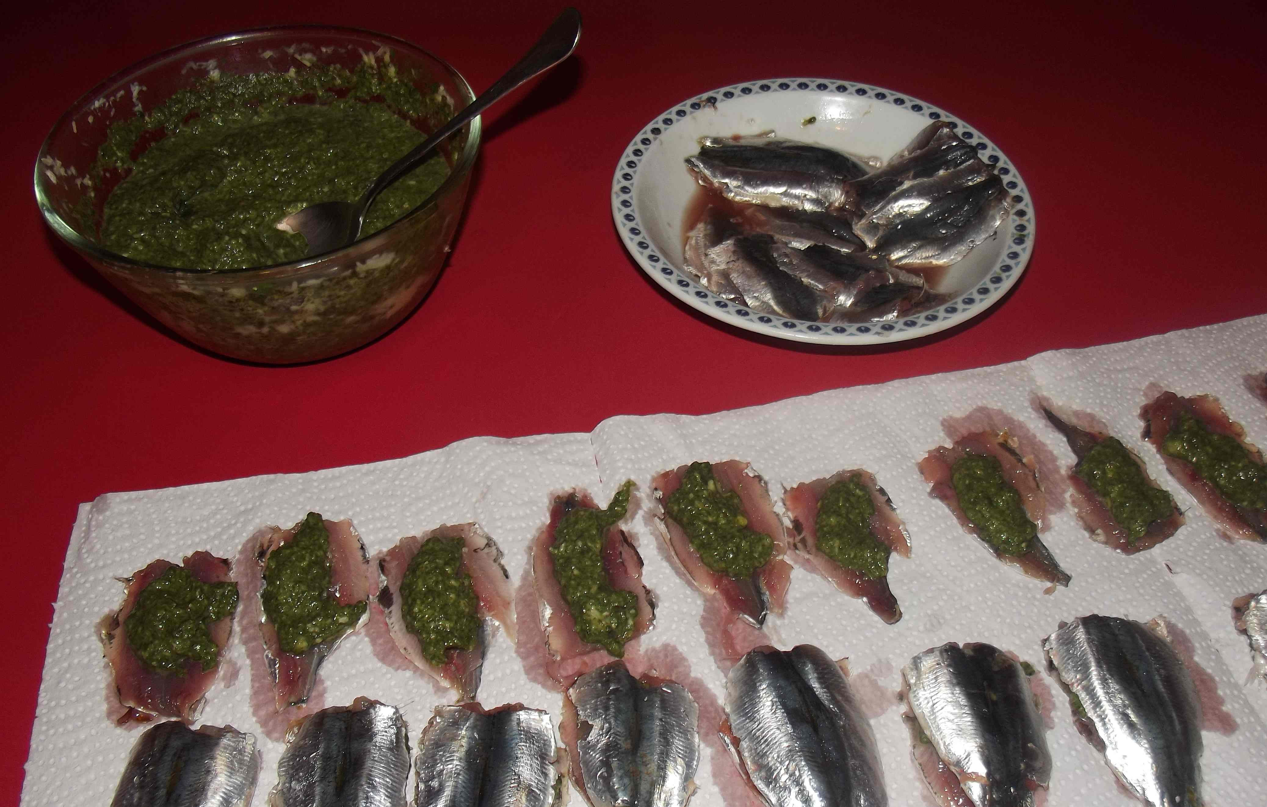 Filling and covering stuffed sardines